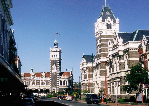 Dunedin Railway Station (left) and Law Courts (right), downtown Dunedin, New Zealand